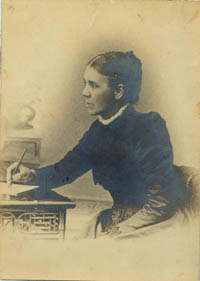 Julia Elizabeth Duddley(1840-1906)